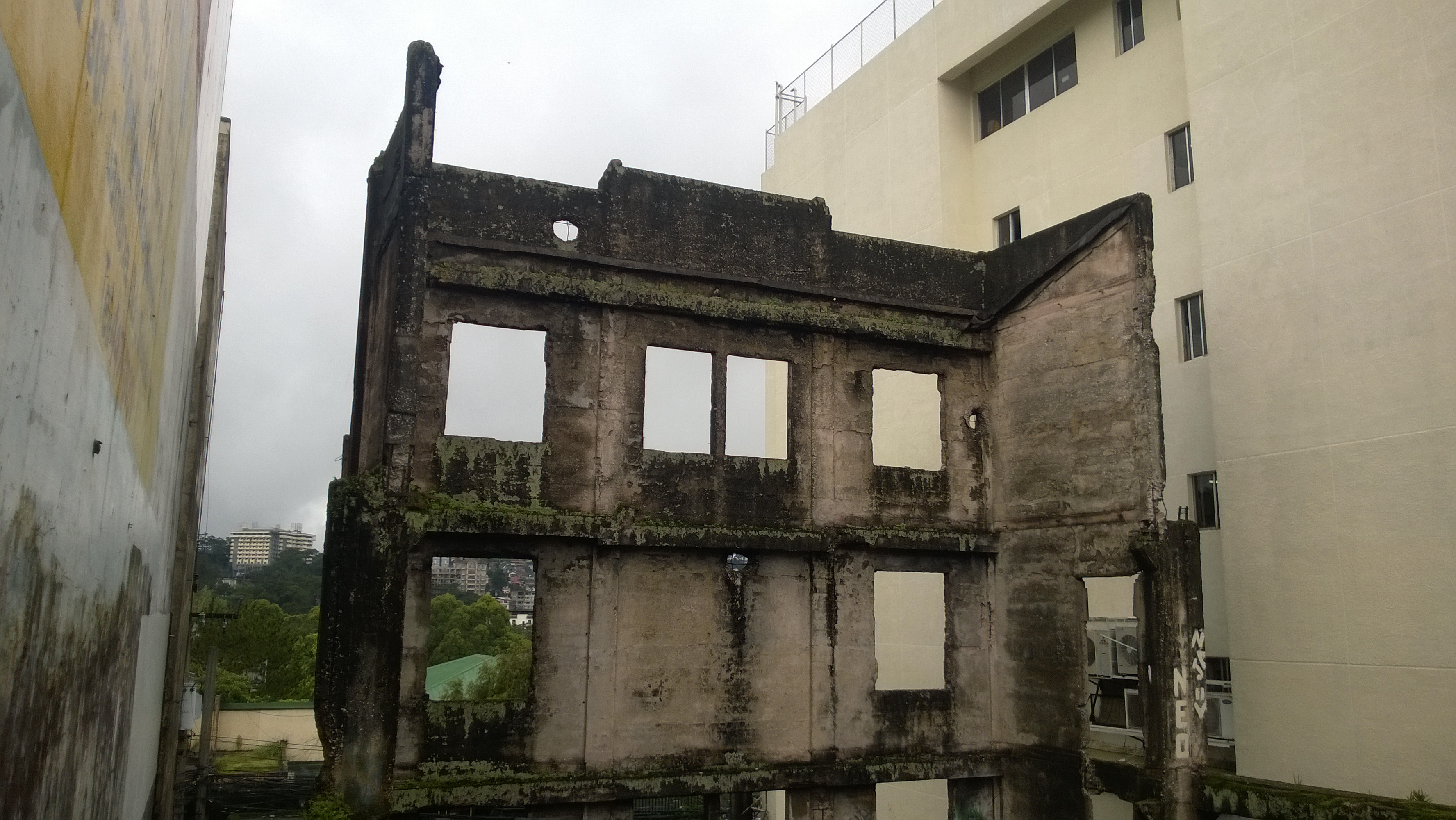 Ruins of an office building along Session Road in Baguio City destroyed during the Battle of Baguio in March 1945 and not rebuilt as of June 2018